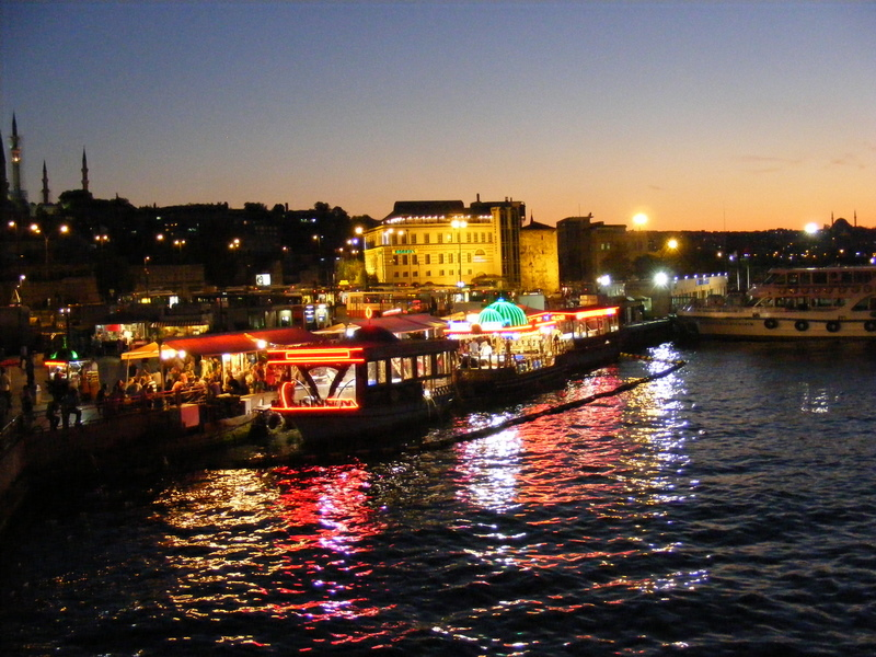 Istanbul by night